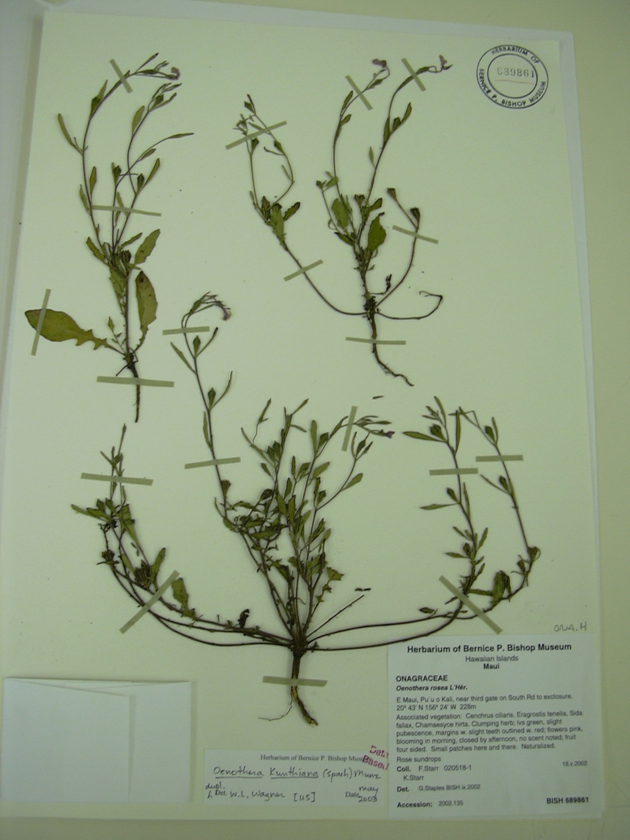 Oenothera kunthiana (BISH specimen). Location: Maui, Puu o Kali